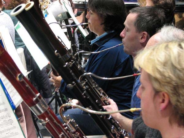 Rehearsal